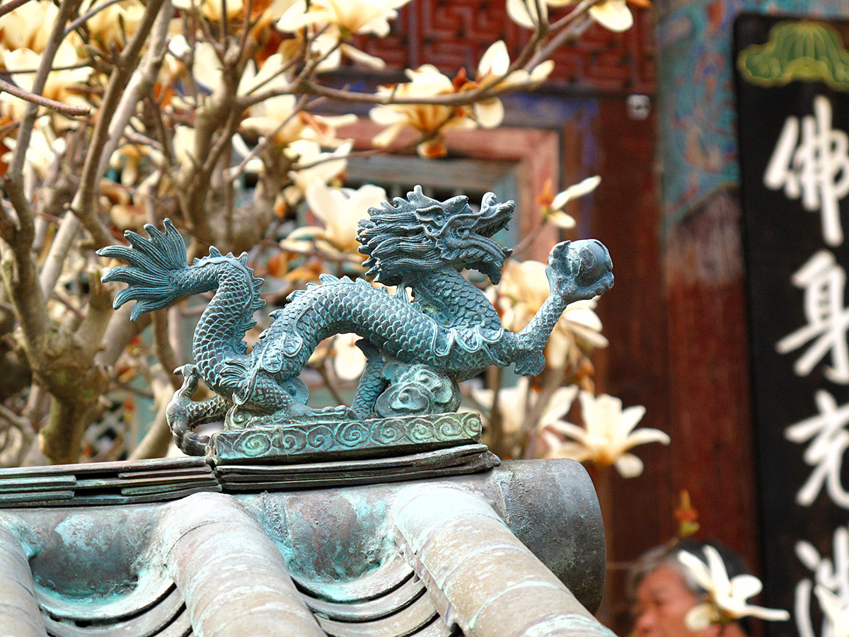 Dragon ornament in Jangangsa Temple, near Busan, South Korea